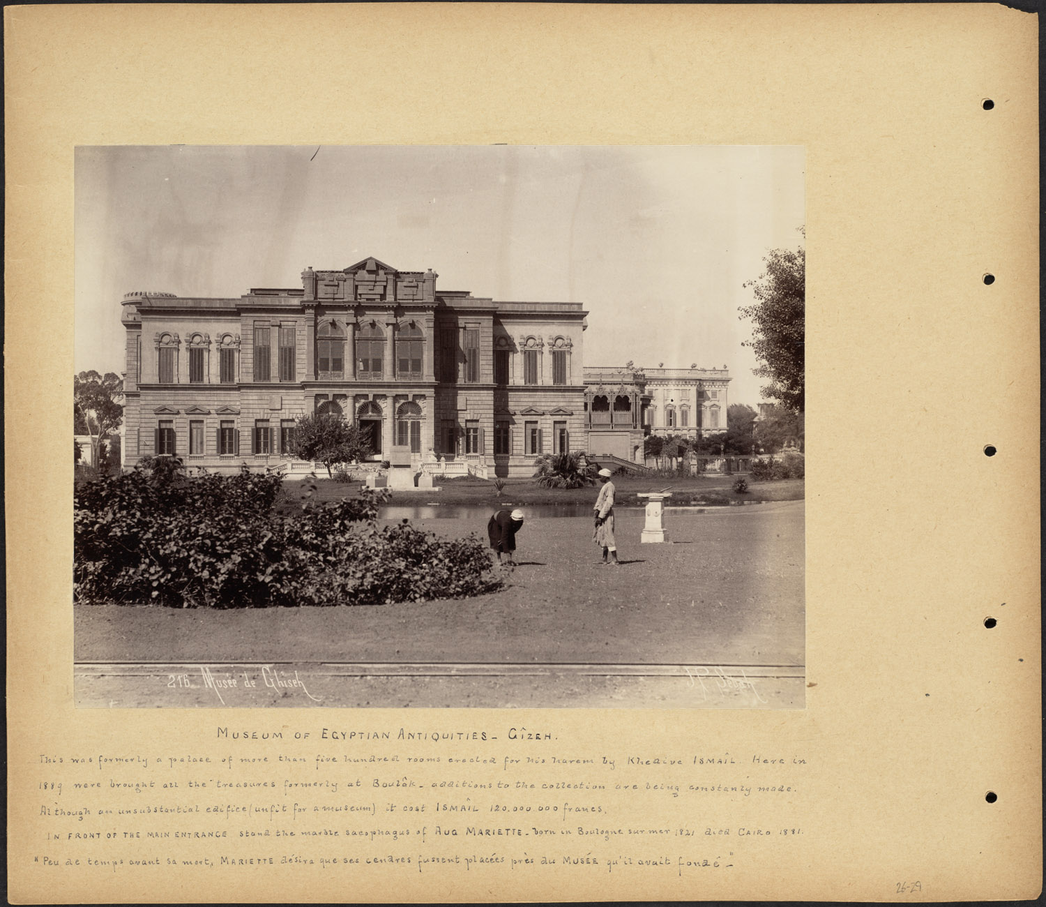 BPLDC no.: 08_04_000030 Page Title: Museum of Egyptian Antiquities- Gîzeh Collection: Tupper Scrapbooks Collection Album: Volume 26: Lower Egypt. Pyramids. Call no. 4098B.104 v26 (p. 29) Creator: Tupper, William Vaughn Description: Scrapbook page including a photograph of the exterior of the Museum of Egyptian Antiquities, annotated with information about the building's history and collections. Subjects: Egypt travel photography museum Egyptian (ancient) Page size: 33 x 38.1 cm Annotations: This was formerly a palace of more than five hundred rooms erected for his harem by Khedive Ismaîl. Here in 1889 were brought all the treasures formerly at Boulâk - additions to the collection are being constantly made. Although an unsubstantial edifice (unfit for a museum) it cost Ismaîl 120.000.000 francs. In front of the main entrance stand the marble sarcophagus of Aug Mariette, born in Boulogne summer 1821 died Cairo 1881. "Peu de temps avant sa mort, Mariette désira que ses cendres fussent placeées près du Musée qu'il avait fondê." Language: English and French, photograph has French title Rights: No known restrictions. Coverage: Egypt Notes: Title supplied by cataloger, derived from captions or annotated information. Format: Scrapbooks Technique: Photographs, Albumen prints BPL Department: Print Department Photo 1: Photographer: Sébah, J. Pascal Title: 216 Musée de Ghiseh Caption: Museum of Egyptian Antiquities- Gîzeh Date: ca. 1860-1890 Flickr data on 2011-08-03: Camera: Sinar AG Sinarback 54 FW, Sinar m License: CC BY 2.0 User: Boston Public Library BPL